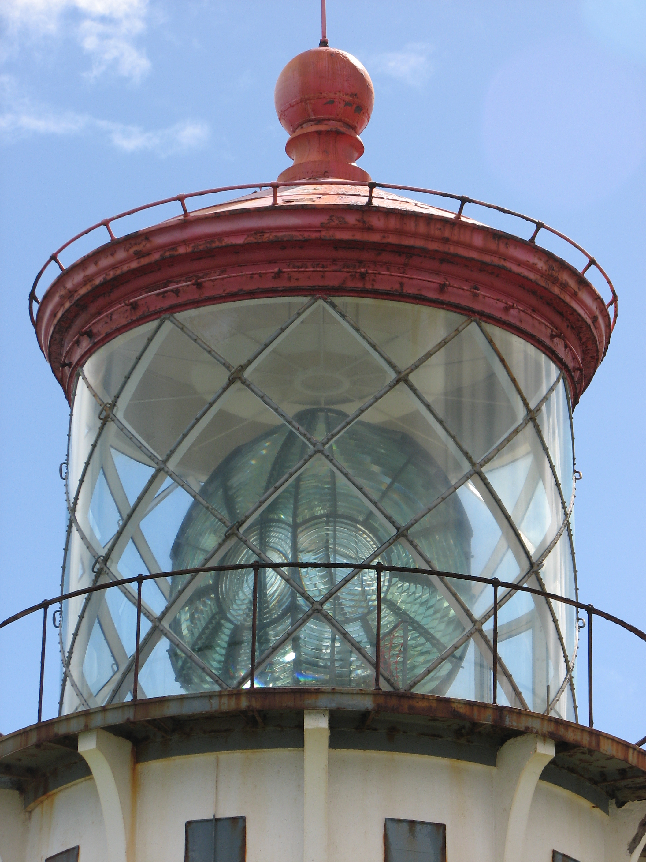 With the large double fresnel lens